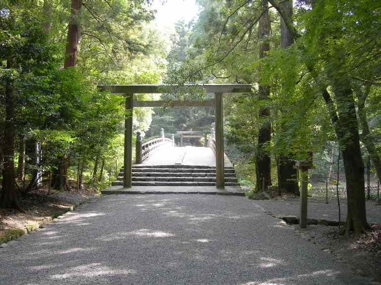 The Kazahinomi-no-miya-o-hashi, the bridge in front of the Betsugu Kazahinomi-no-miya Sanctuary of Kotaijingū(Naikū), Ise city, Mie Prefecture, Japan.